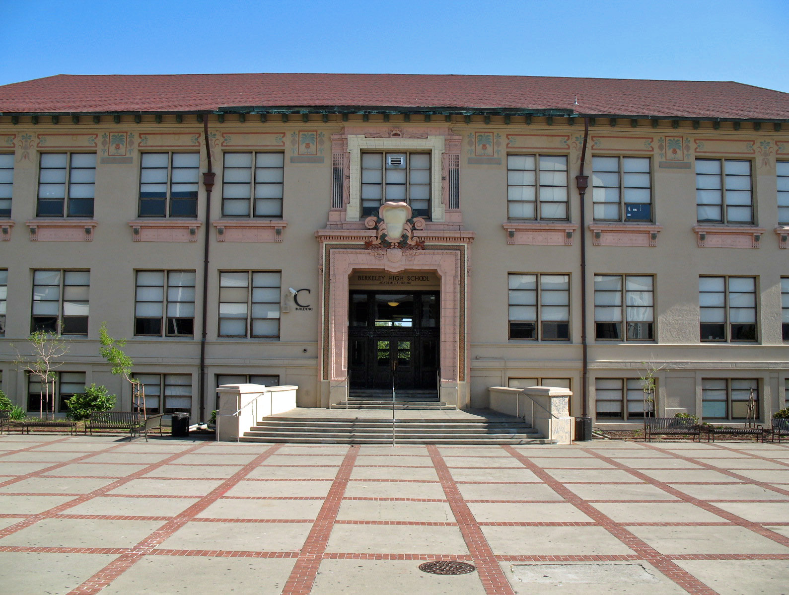 Old Berkeley High School, Berkeley, CA. Contributing property to the Berkeley High School Campus Historic District. National Register of Historic Places listings in Alameda County, California. Photographed 2009-05-16 from the plaza to the north of the building.